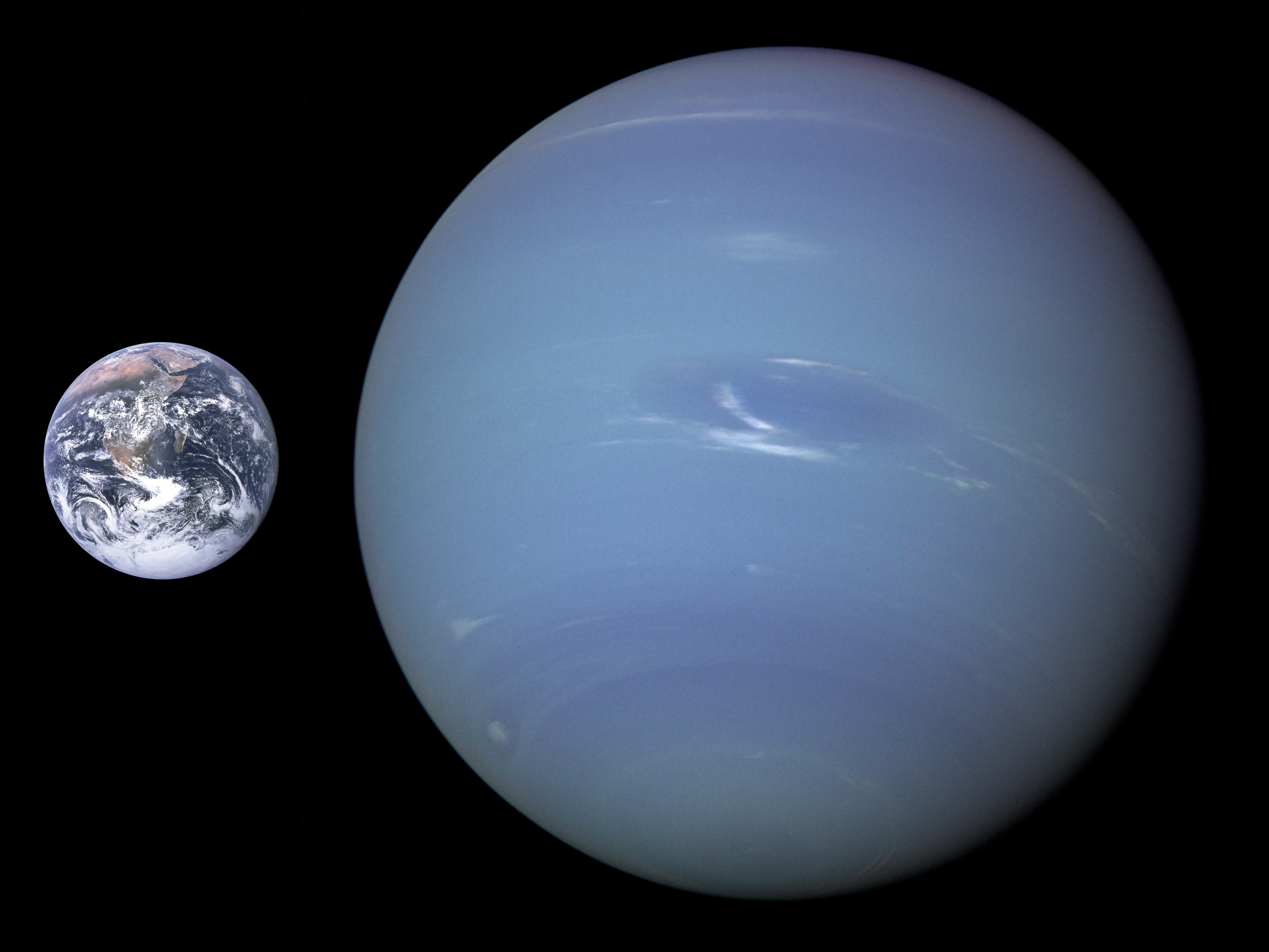 Diameter comparison of Neptune and Earth. The two images linked below were combined by the uploader to create a new size comparison of Neptune and Earth, using a close to true-color image of Neptune.